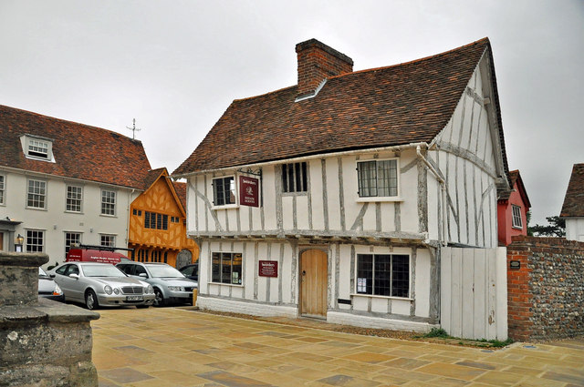 Estate Agent's offices -Lavenham